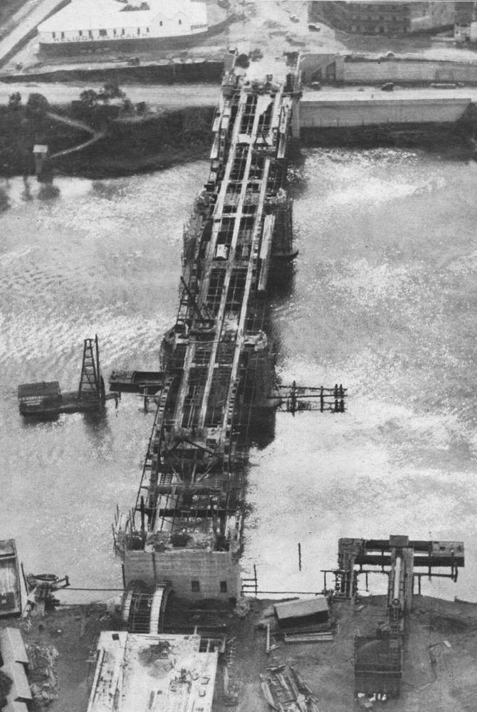 Photographer: Unidentified Location: Brisbane, Queensland, Australia View this page at the State Library of Queensland Information about State Library of Queensland’s collection